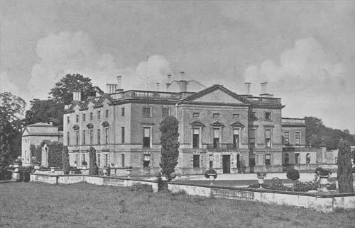 Stanwick Hall, Stanwick St John, Yorkshire, seat of the Smithson family, later Percy, Duke of Northumberland. Demolished 1923.